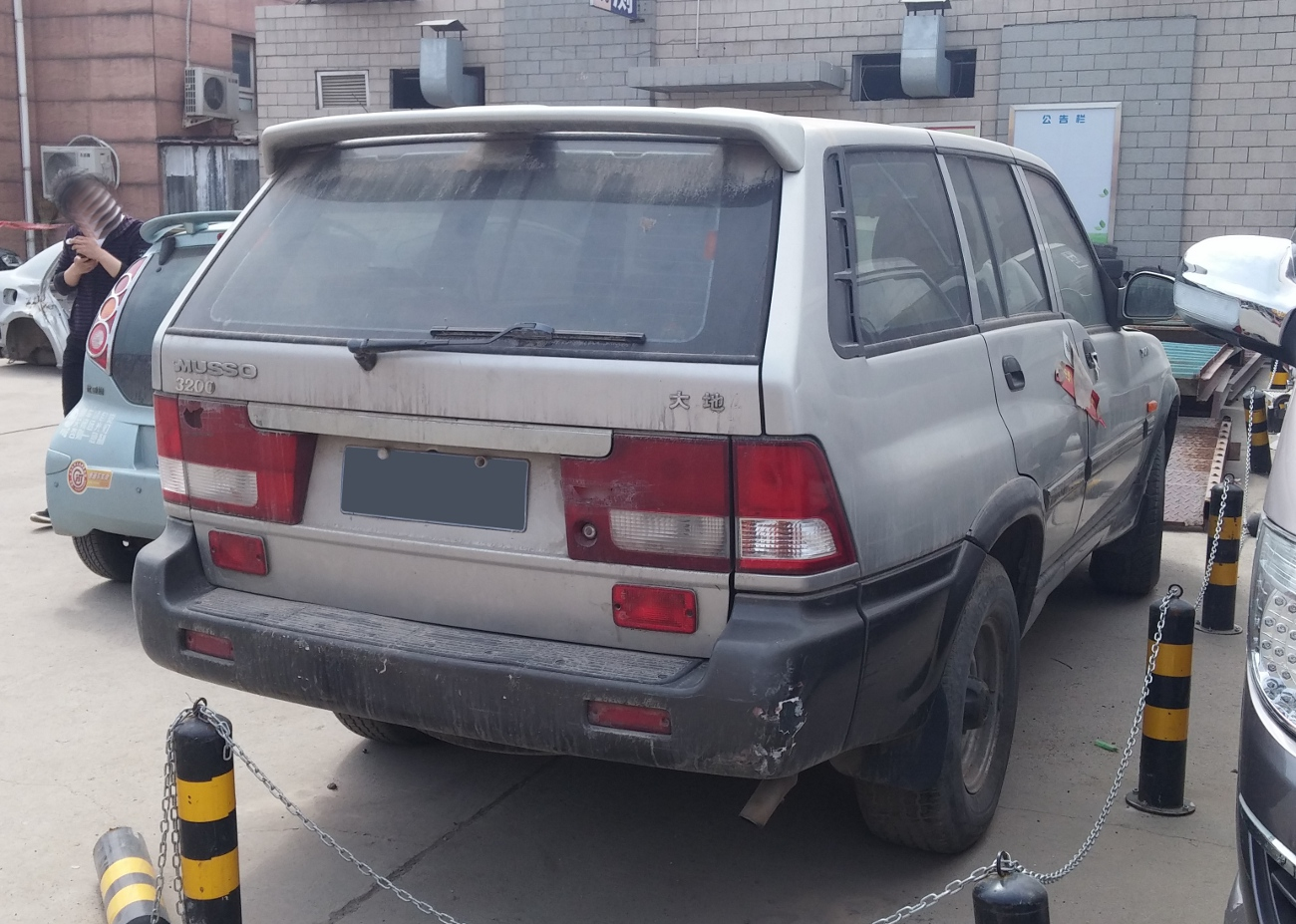 Dadi Musso RX6470 photographed in Zhengzhou, Henan province, China.